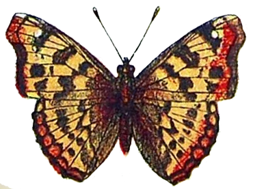 Thaleropis ionia